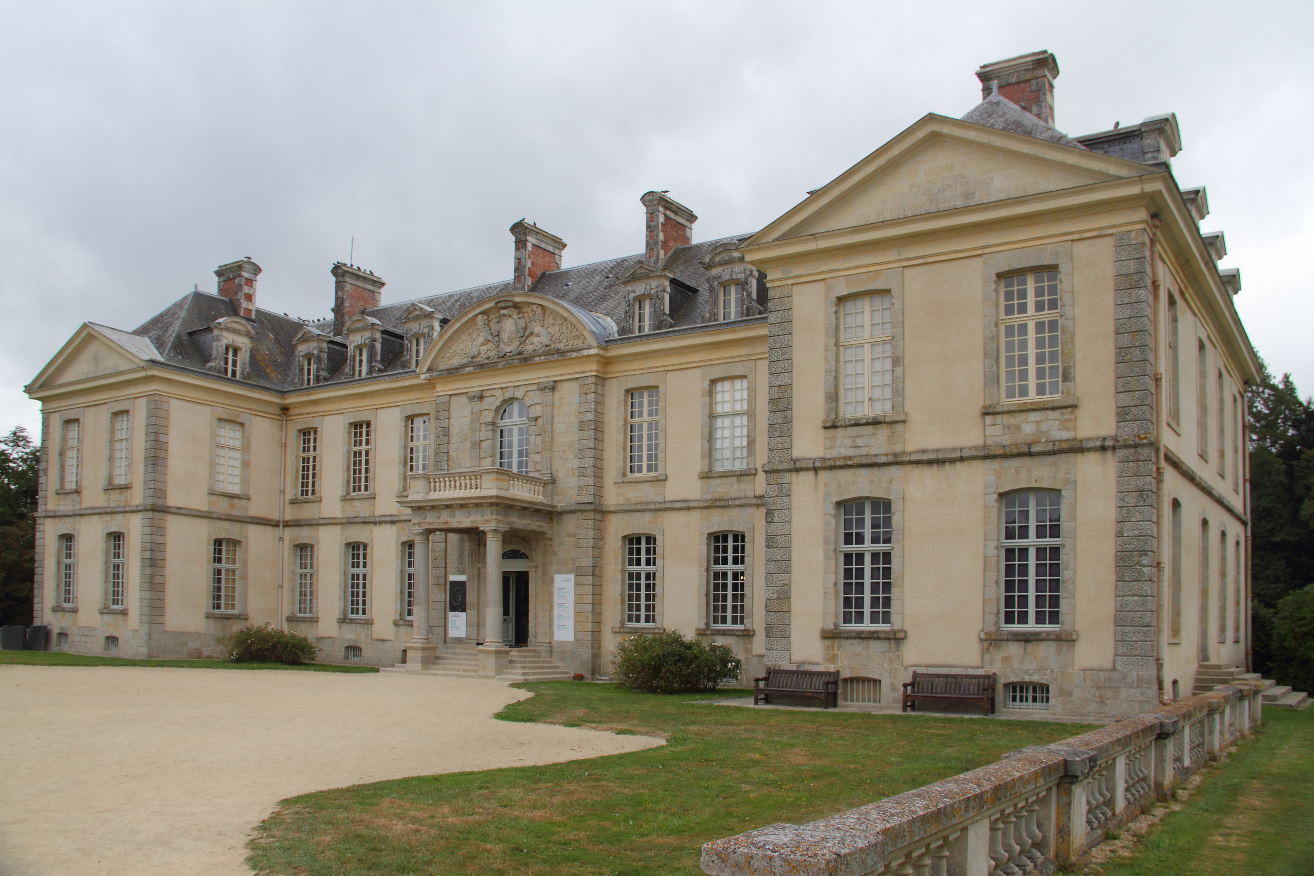 The Château de Kerguéhennec is a place for art exhibitions and events.